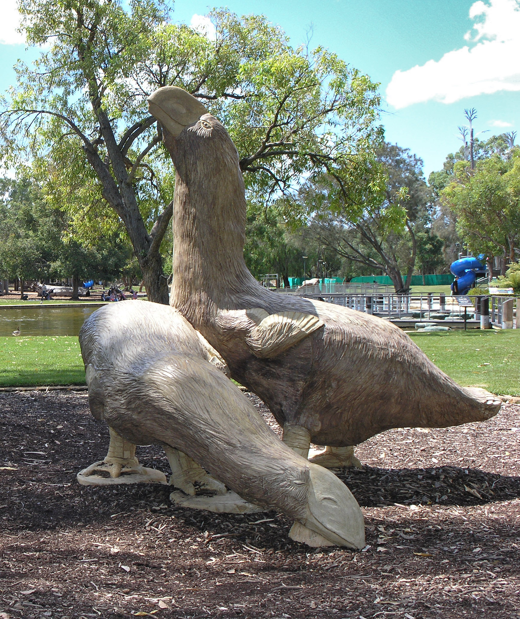 Taken by me, Seanmack in Kings Park, Perth. WA. See this page for image description